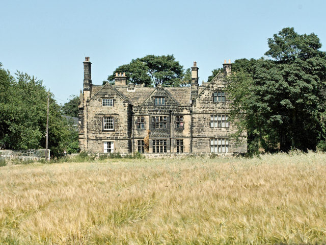 Hodroyd Hall — in West Yorkshire.